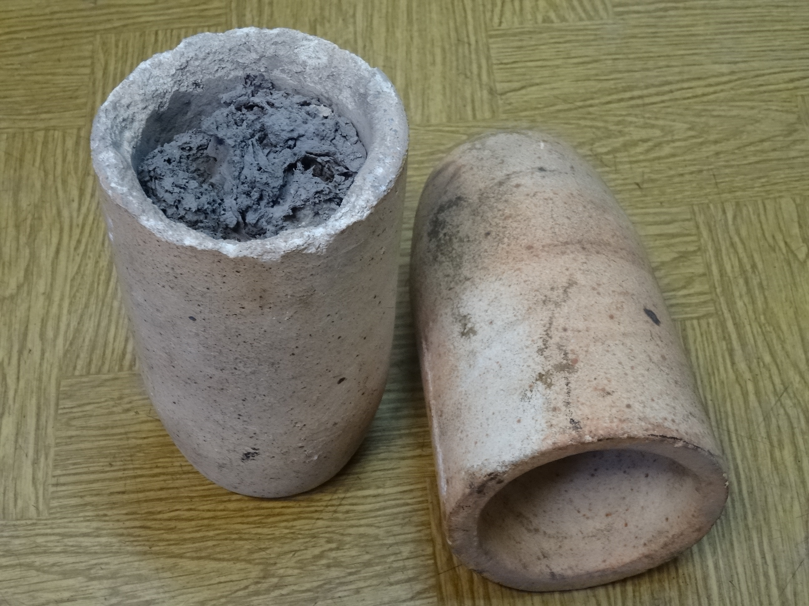 Cupels, i.e. porous crucibles made e.g. of bone ash or magnesite, used in the process of cupellation for the acquisition and purification of noble metals, as well as the determination of the composition of these ores. Dissolved at high temperature in molten lead, the ore is reduced by charcoal, which burns in oxygen penetrating through the porous walls of cupel. At the end of the process, the cooled cupel is broken, and at its bottom is a layer of precious metal with a density greater than lead.